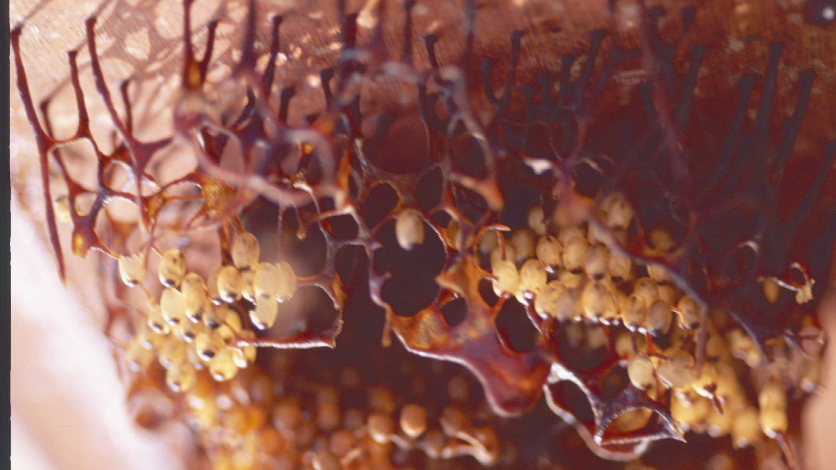 Image of a nest of Plebeia remota